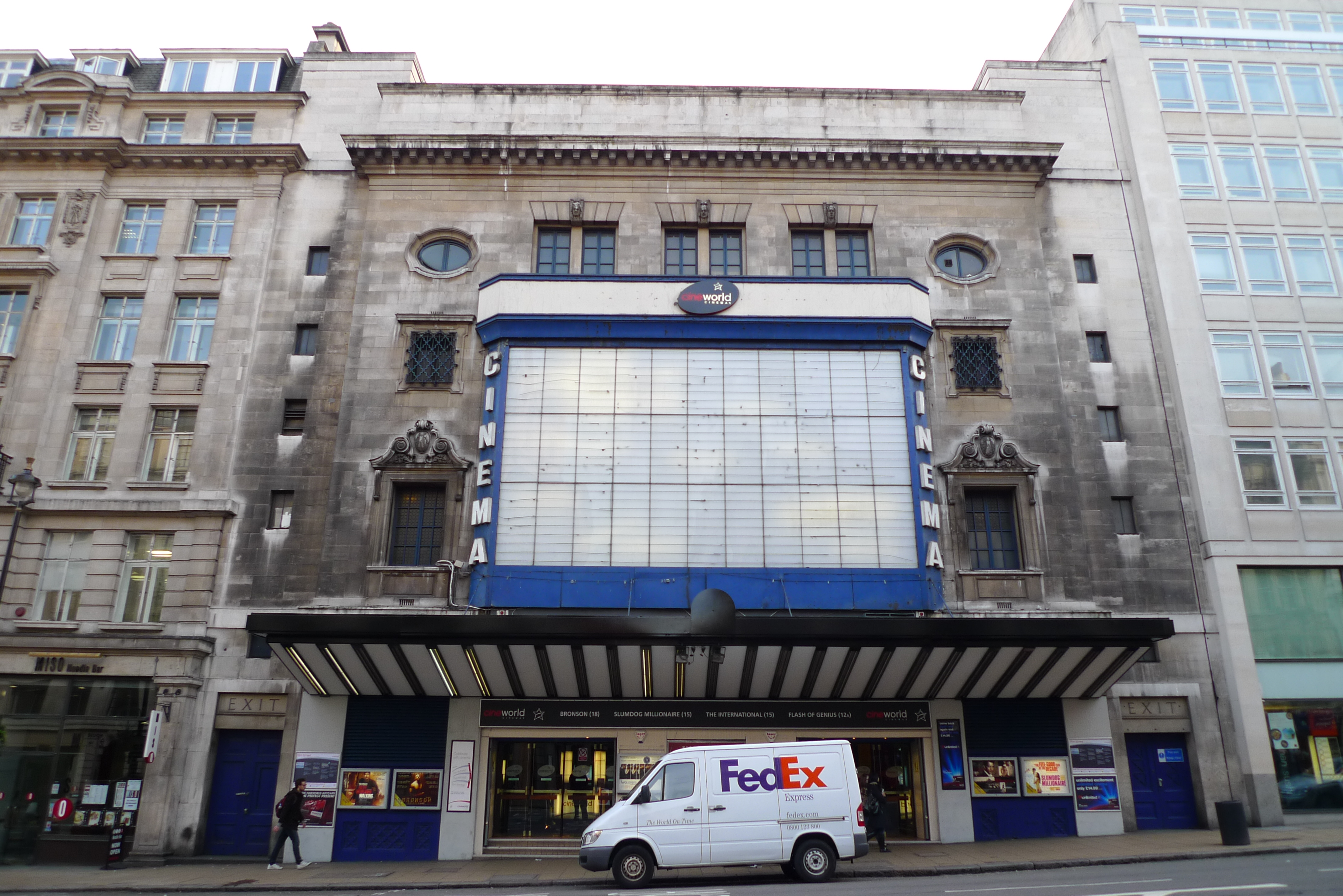 Large cinema in central London, appropriately priced. Opened 1927 as a cinema/theatre. Address: 63-65 Haymarket. Former Name(s): Classic Haymarket; UGC Haymarket; Virgin Haymarket; MGM Haymarket; Cannon Haymarket; Carlton Theatre. Owner: Cineworld (website). Links: Randomness Guide to London Cinema Treasures